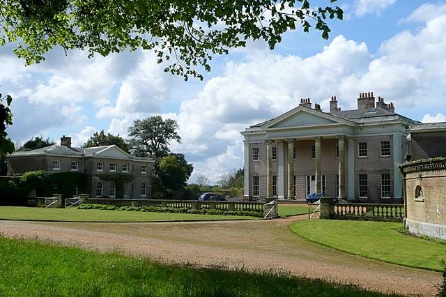 Hale House Checked carefully with the GPS, I am standing just inside the eastern boundary of the square and the house is wholly within. The current Hale House was built, to Palladian style in the early to mid 18th century, by Thomas Archer, who worked for Queen Anne and was a well-known architect of his day.